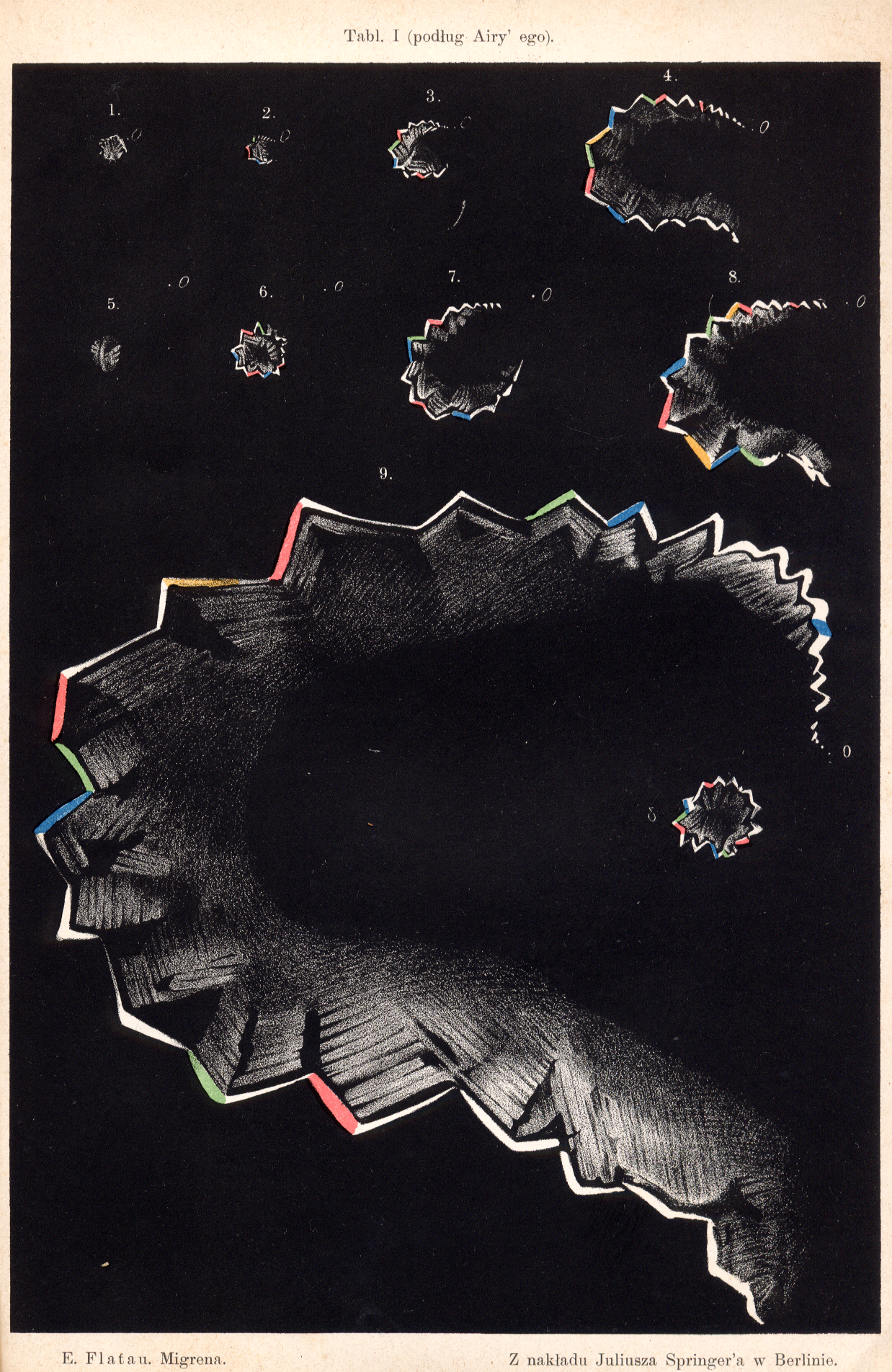 The fortification illusions of migraine